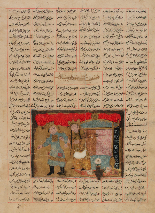 Folio (Siyawakhsh in the bower of Sudaba) from Shahnameh (Book of Kings).